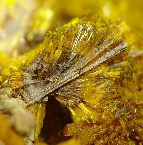 Becquerelite, Fourmarierite, Masuyite, Uranophane - alpha Locality: Shinkolobwe Mine (Kasolo Mine), Shinkolobwe, Central area, Katanga Copper Crescent, Katanga (Shaba), Democratic Republic of Congo (Zaïre) (Locality at ) Size: small cabinet, 6.2 x 5.8 x 3.1 cm Becquerelite with Masuyite, Fourmarierite and Uranophane This large, rich specimen has THREE species for which this is the type locality: Masuyite (in red spherical aggregates), Fourmarierite (dark red/umber crystals underlaying the BQ and embedded in the matrix), and superb, large sprays of Becquerelite with crystals to a whopping 5mm . The matrix is uraninite. Many are freestanding! In person, this is a beautiful specimen worthy of a display shelf, but its also an important combinatorial piece.